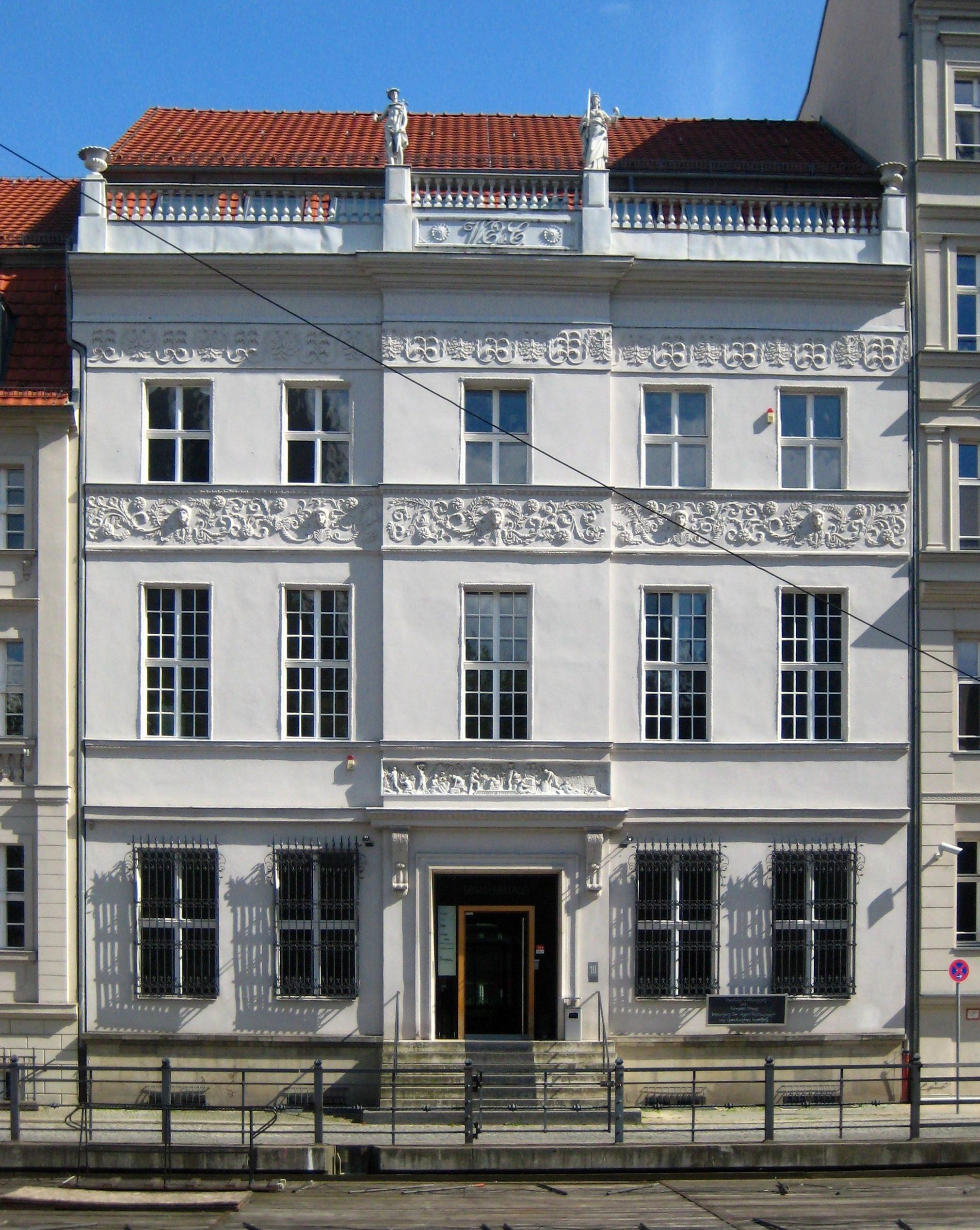 The Ermeler House at Märkisches Ufer 10 in Berlin-Mitte. It was built around 1770 in the Rococo style, but was altered in 1804 to receive a classicist outlook. The house originally stood at Breite Straße on Spreeinsel, but was demolished from 1952 to 1953 to make room for a broadening of the street. It was reconstructed from 1968 to 1969 at Märkisches Ufer. The house is connected with the neighboring building Märkisches Ufer 12, which originally stood at Friedrichsgracht and was relocated at the same time. The Ermeler House is landmarked.